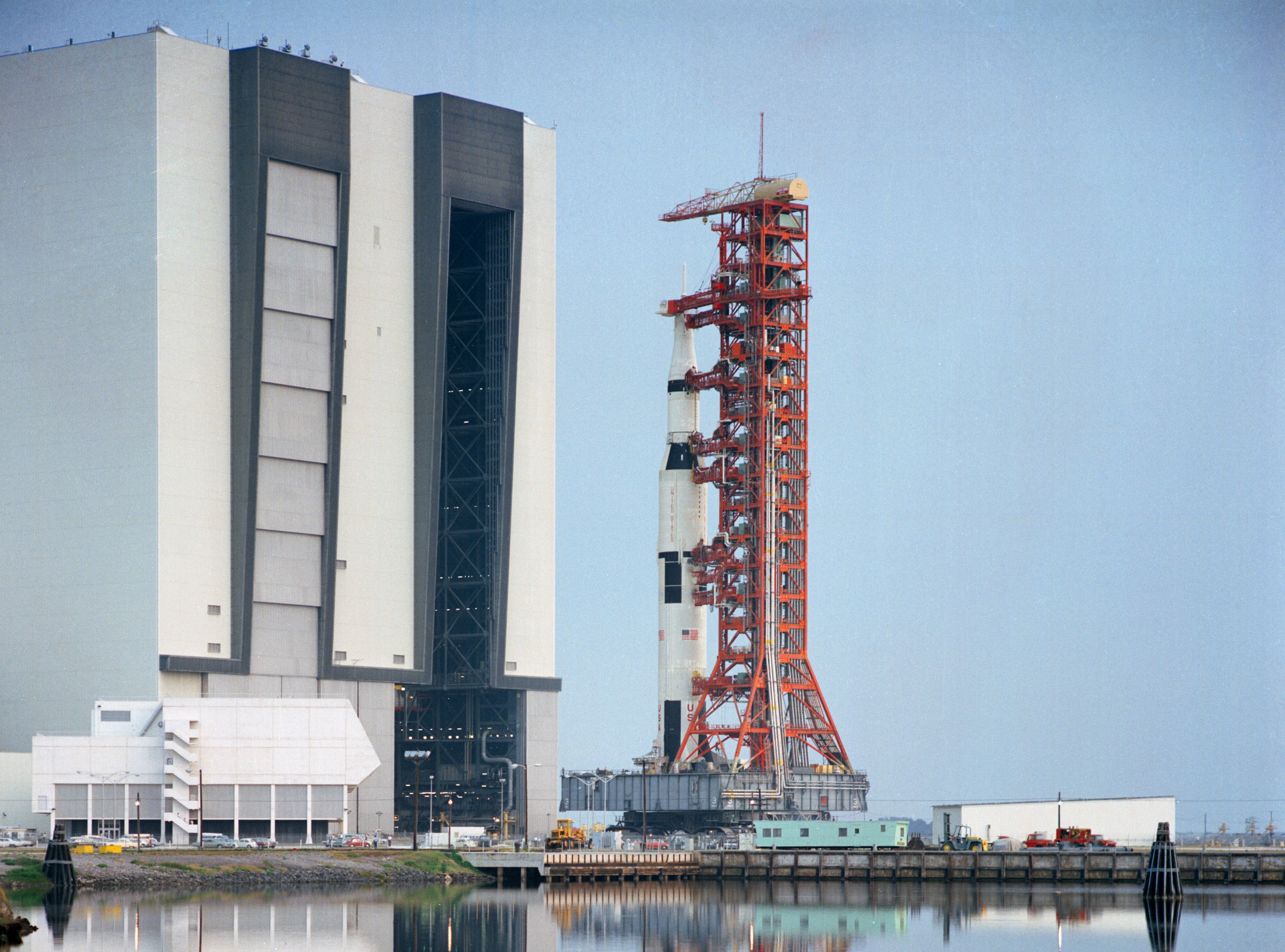 The Saturn V rocket carrying the Apollo 15 spacecraft leaves the Vehicle Assembly Building en route to Launch Pad 39A